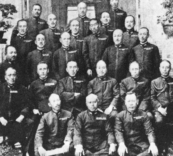 Future Imperial Japanese Navy Admiral Isoroku Yamamoto (second from right in second row from front) photographed as a captain with former Eta Jima Naval Academy classmates sometime in the mid-to-late 1920s.